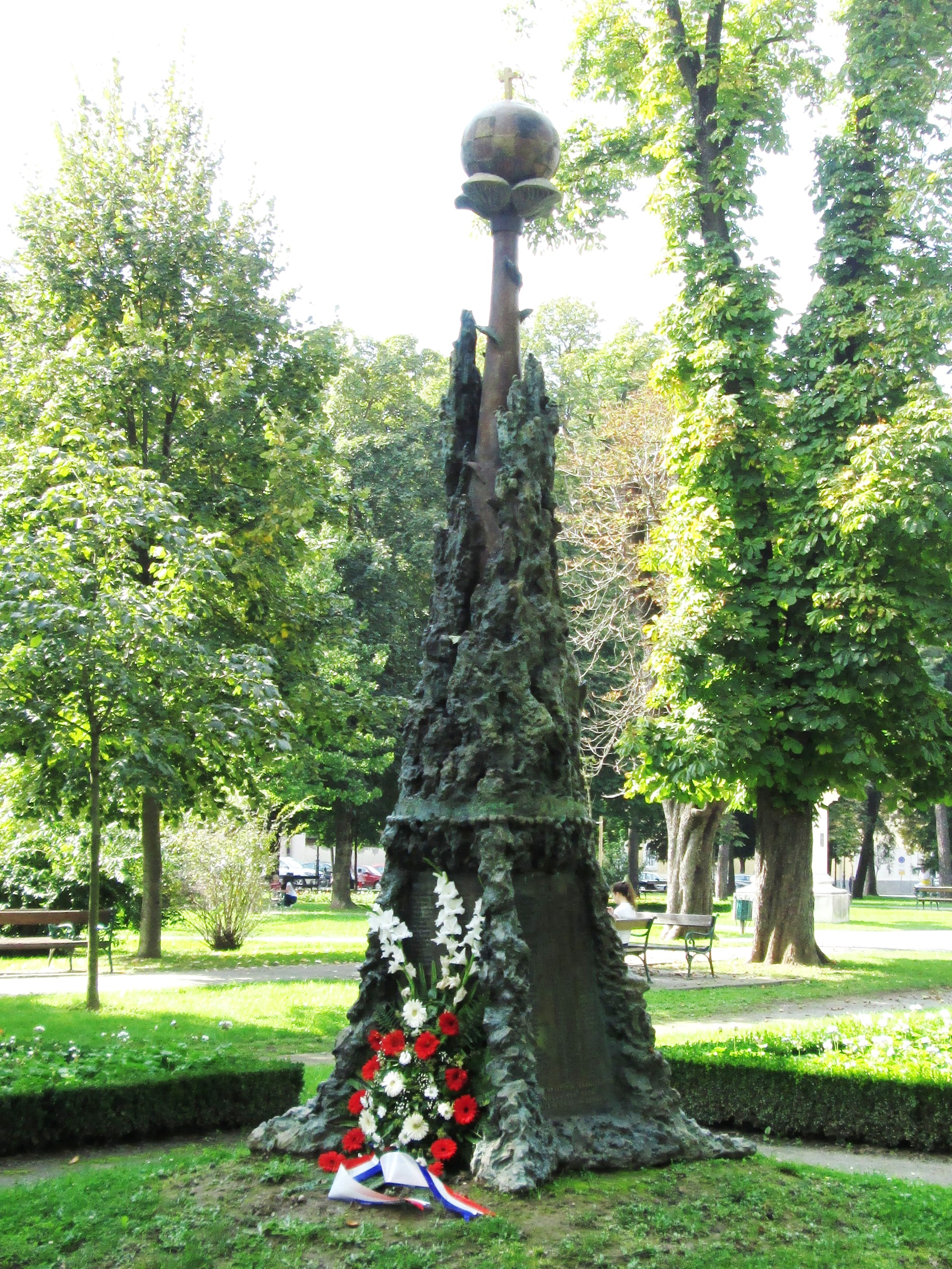 War memorial monument of the Croatian War of Independence, in Bjelovar, Croatia